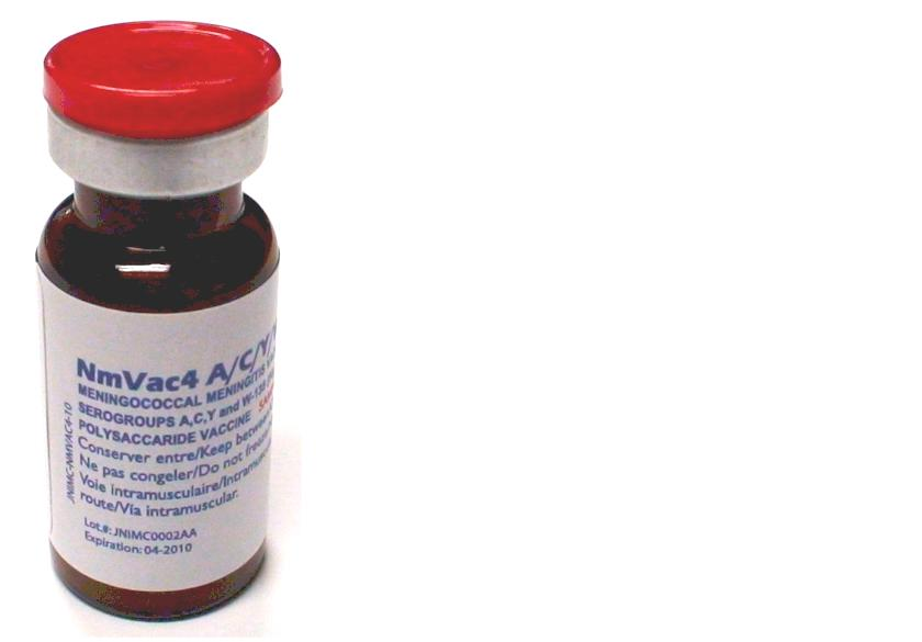 Meningococcal meningitis A,C,Y,W-135 Vaccine